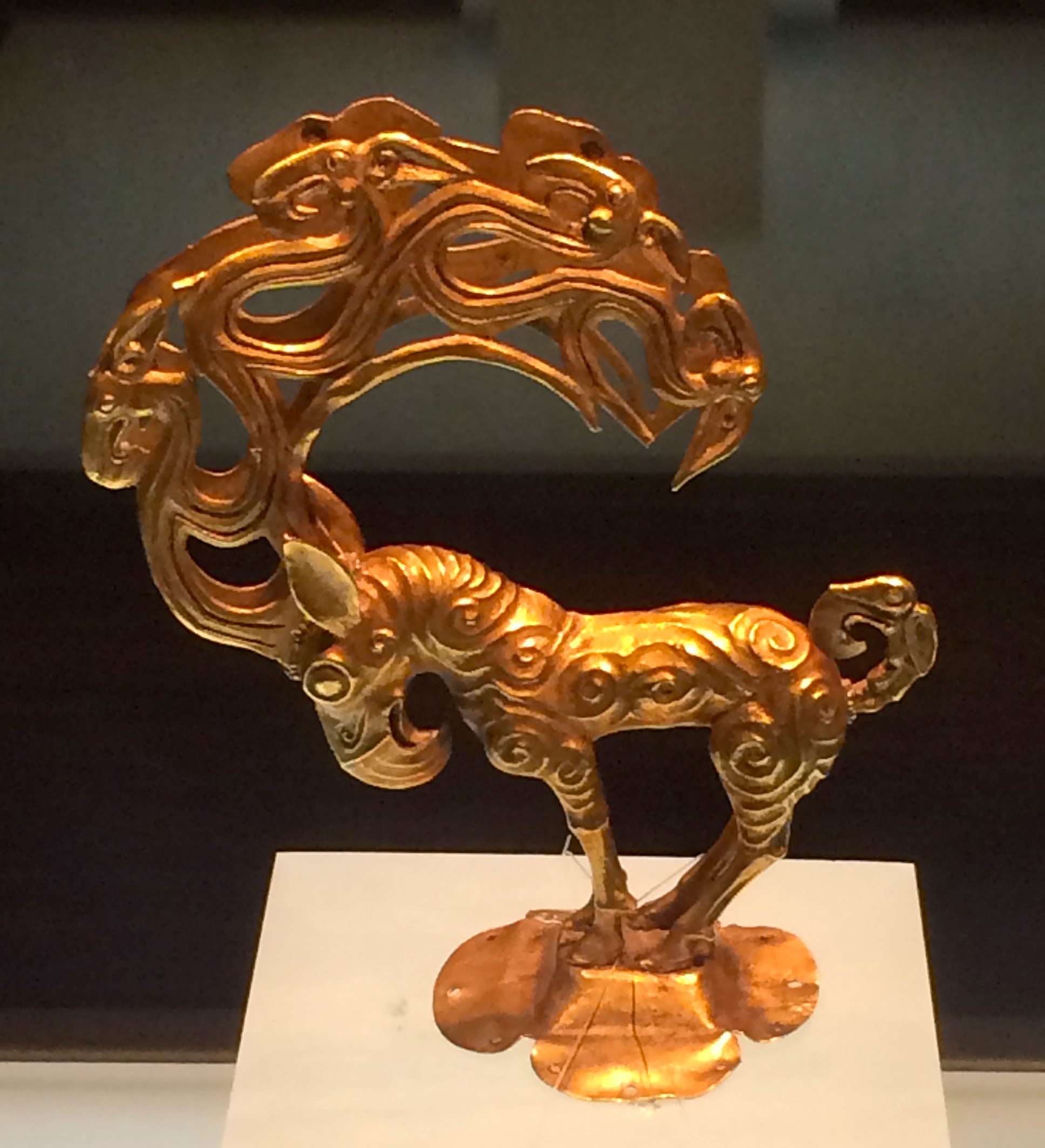 "Gold Monster in Shaanxi History Museum, Xi'an, China